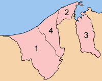 Map of the districts of Brunei, numbered in English alphabetical order. Belait Brunei and Muara Temburong Tutong